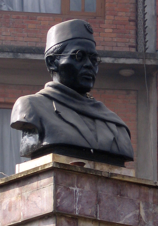 Bust of Buddhist scholar and Nepal Bhasa journalist Dharmaditya Dharmacharya in Nepal.